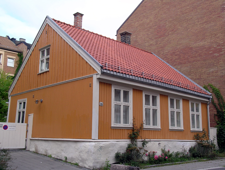 Korsgata 16, Oslo, Norway. Log house, built 1858.